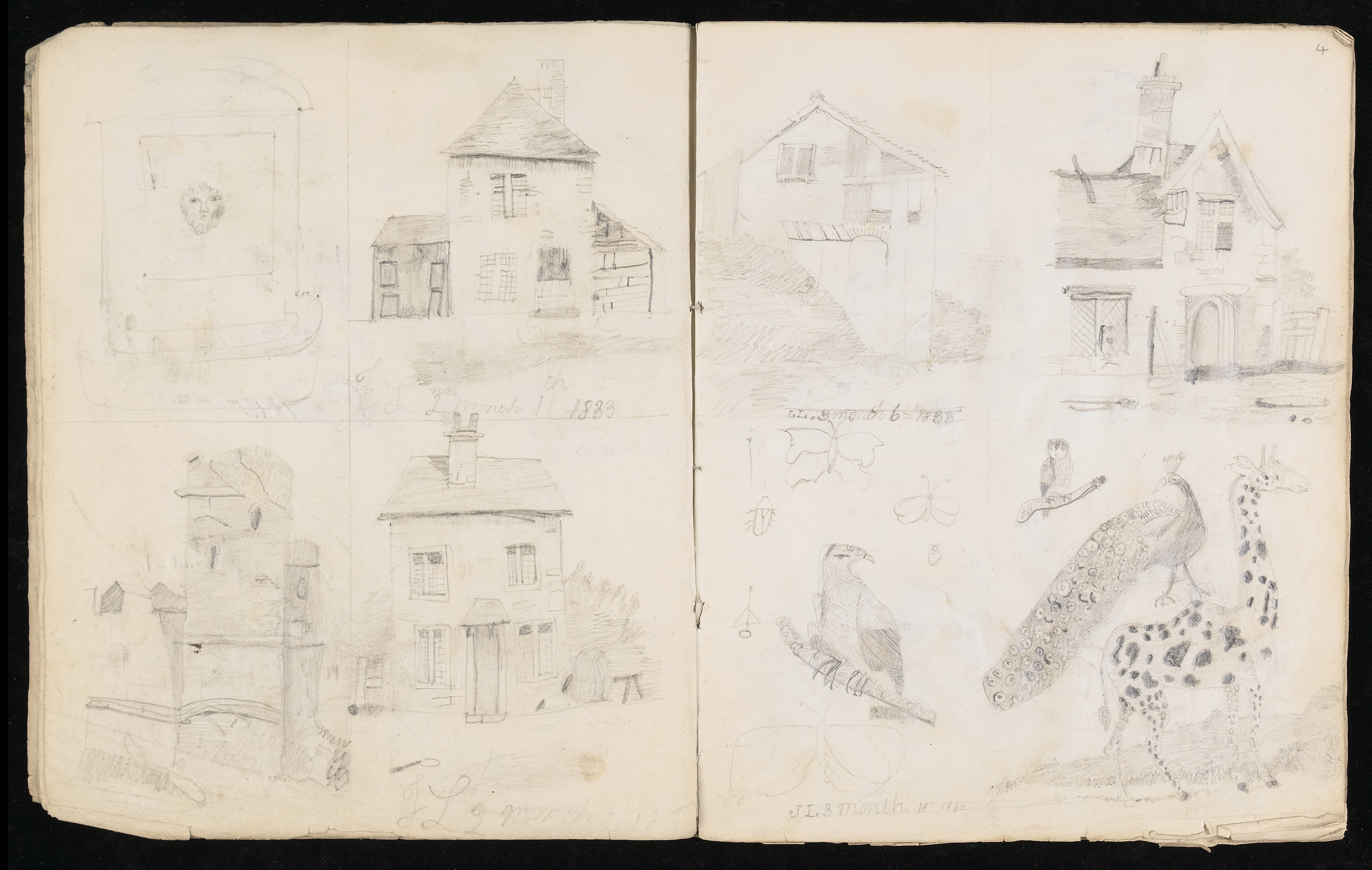 Houses and animals. Archives & Manuscripts Keywords: Animals; Housing; Art; Joseph Lister